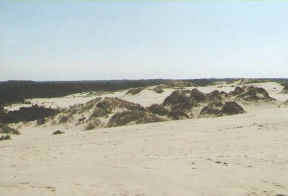 A view of the dunes at Råbjerg Mile, Denmark. Photographer: Dan Simon